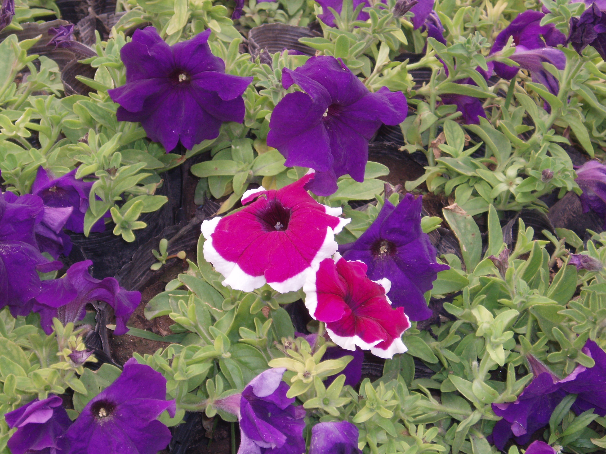 Double wave flowers.